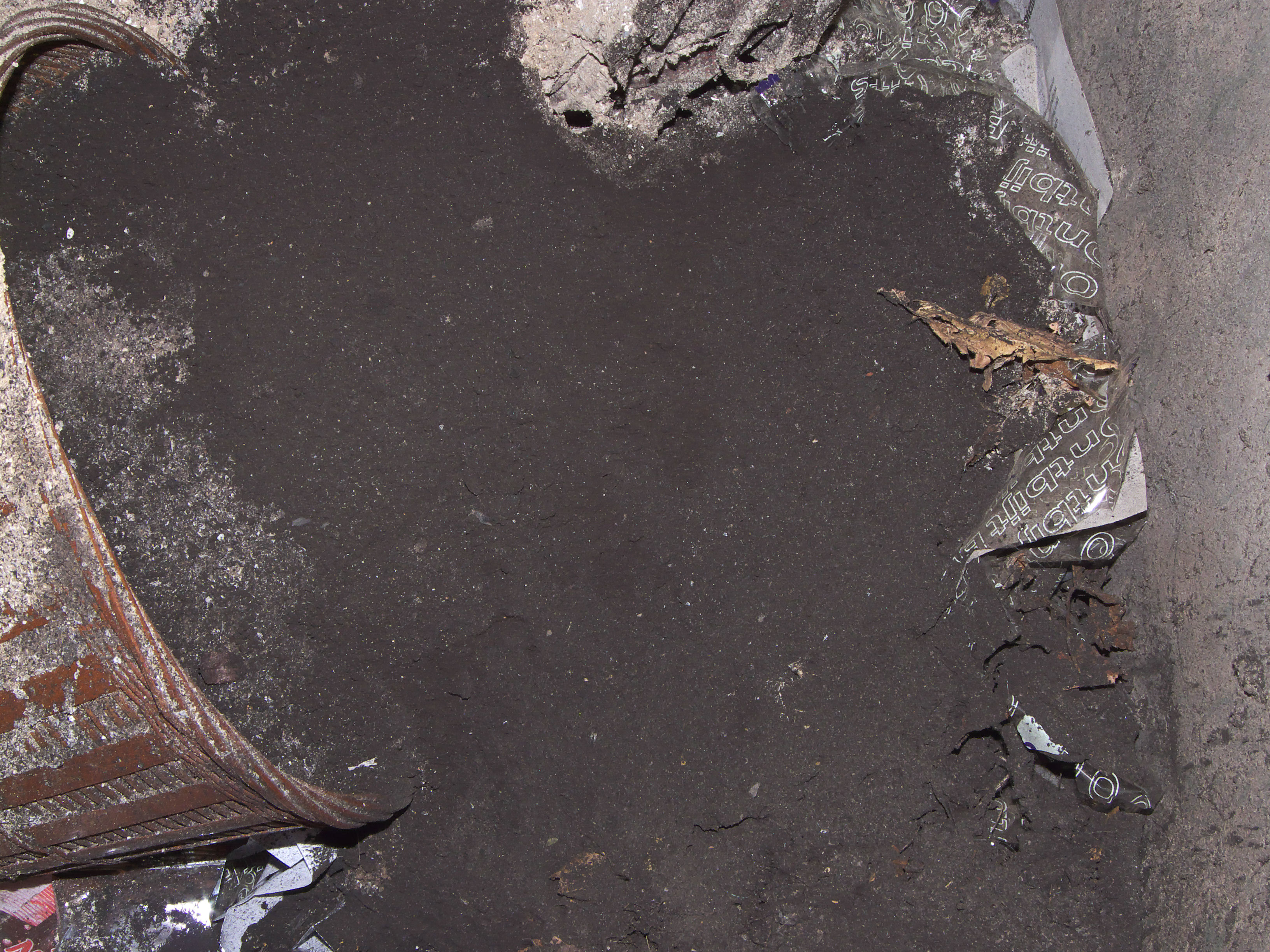 Soot from a chimney